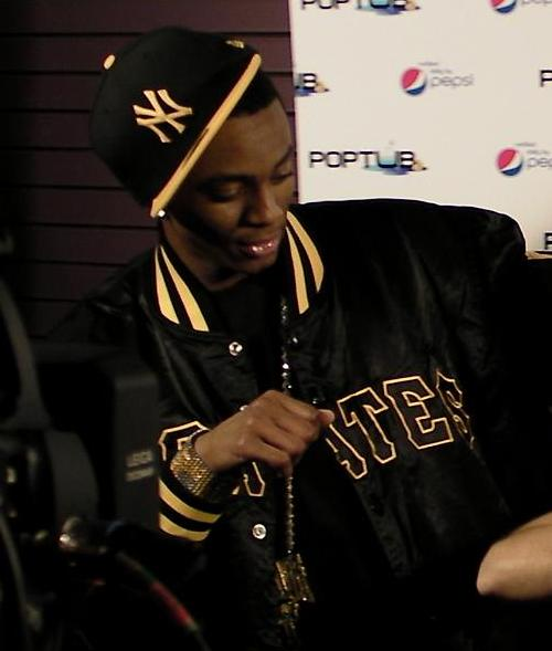 Soulja Boy Tell 'Em on YouTube Live. Cropped version.